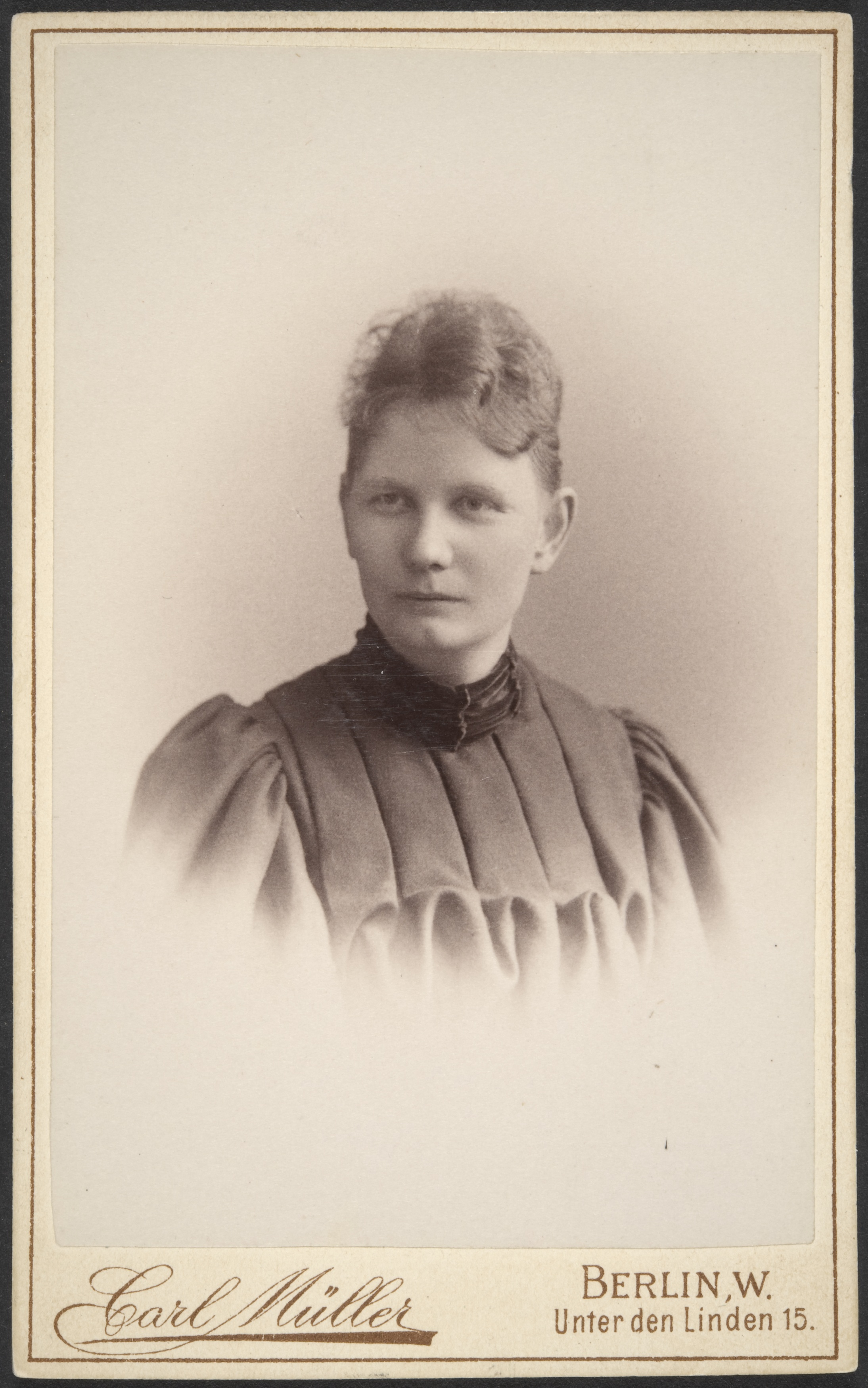 Picture of Maikki Friberg, Finnish politician